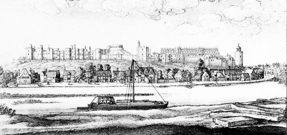 Windsor Castle in 1672, seen from the river